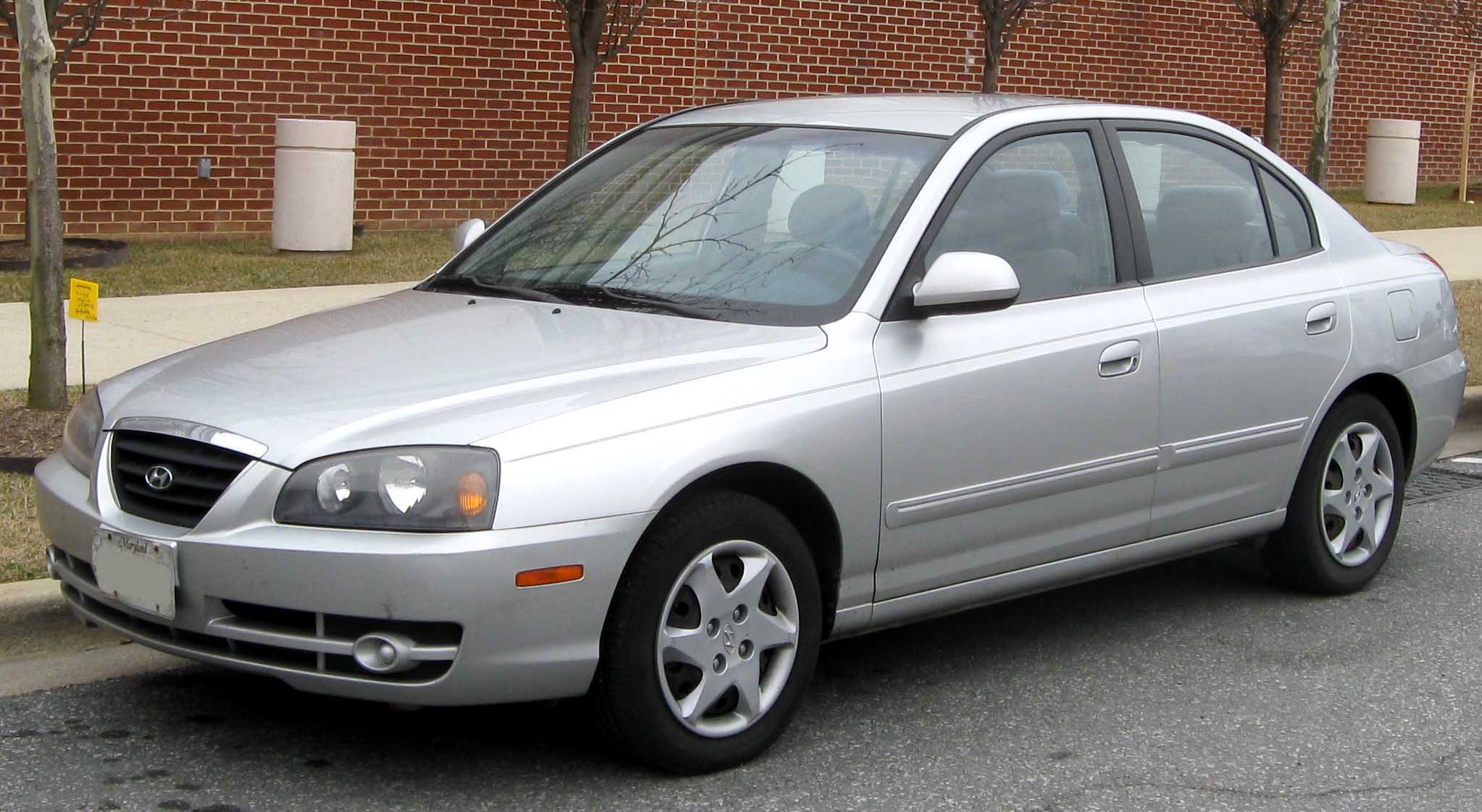 2004-2006 Hyundai Elantra photographed in College Park, Maryland, USA.